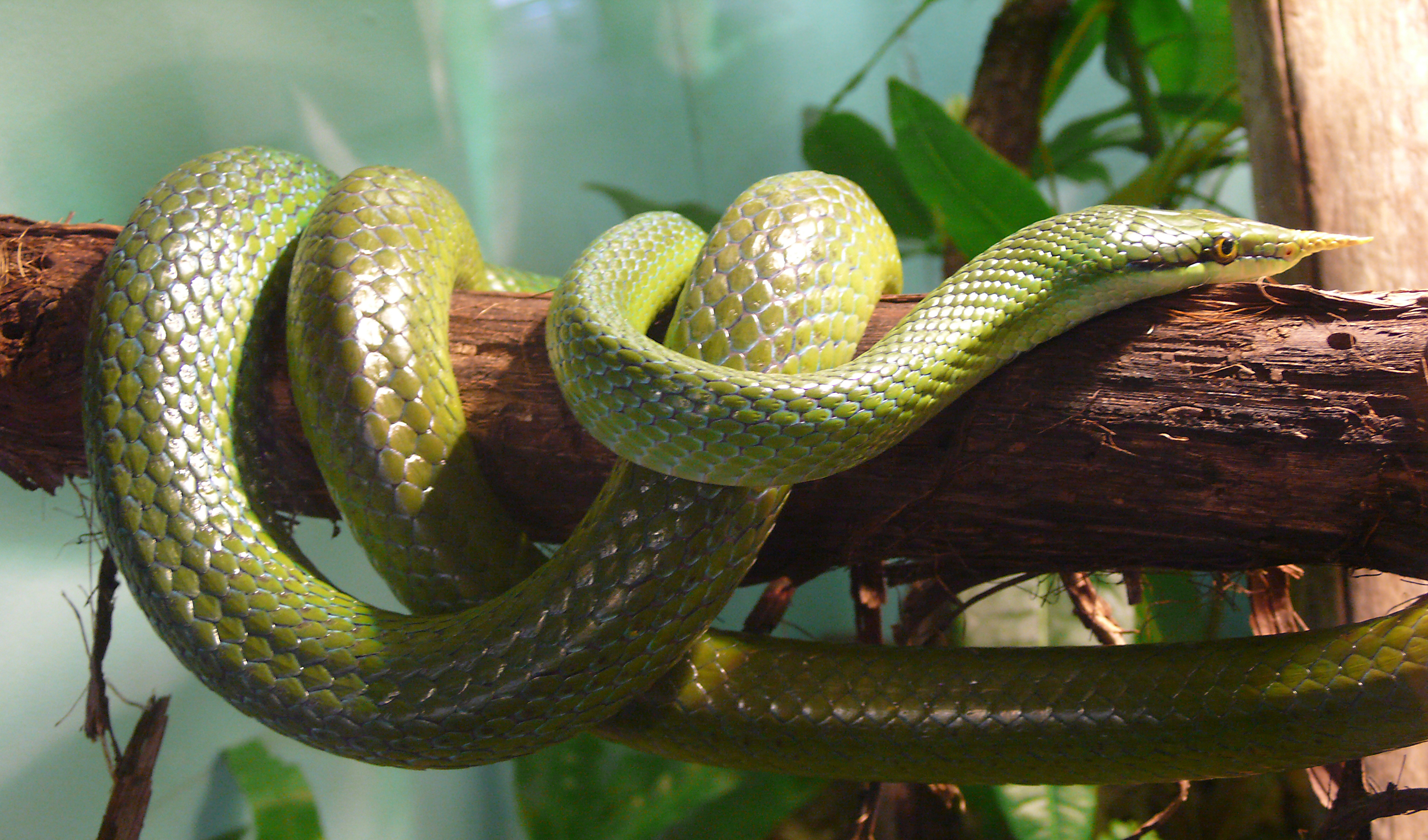 Vietnamese Long-Nosed Snake (Rhynchophis boulengeri)